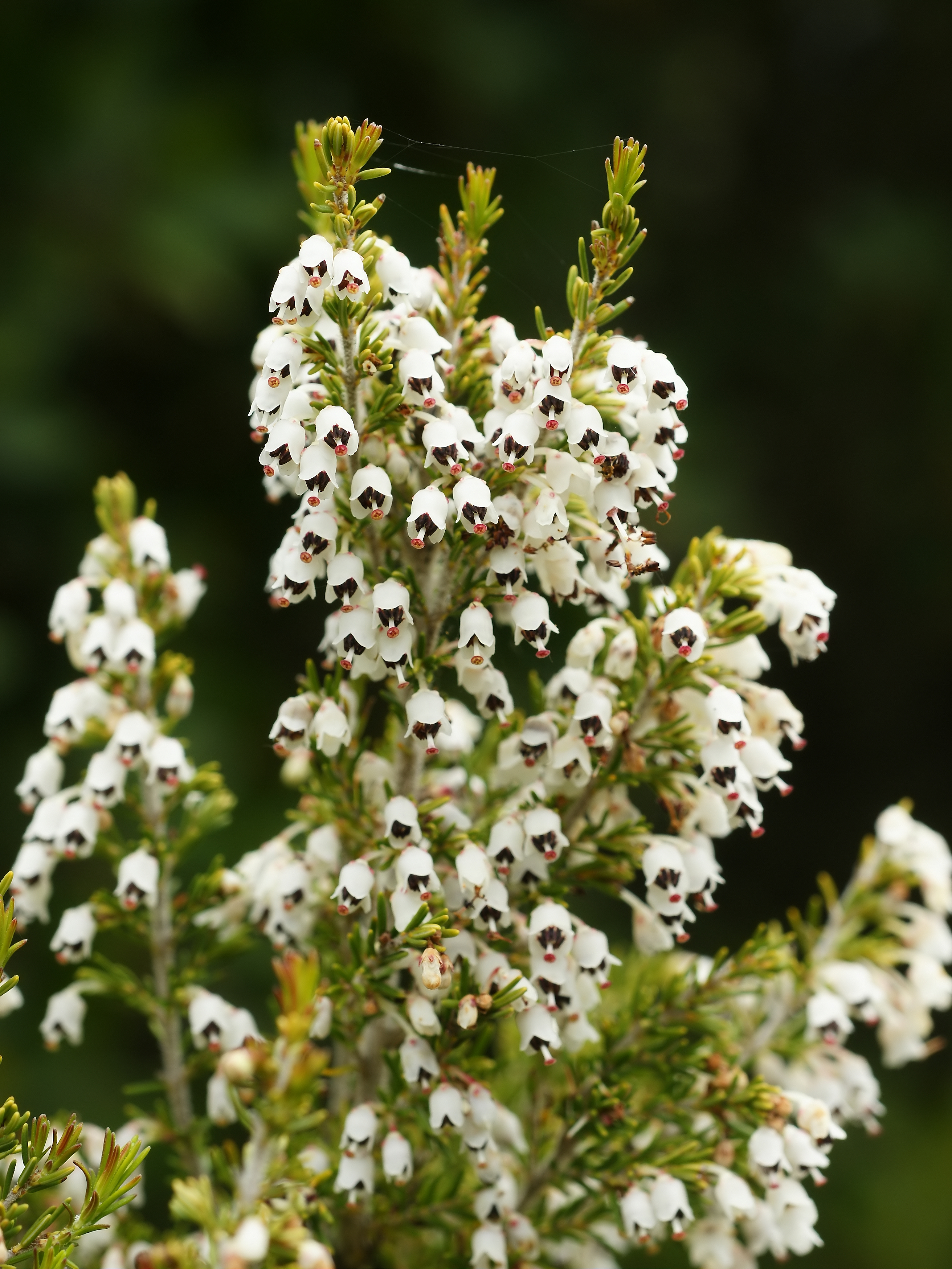 Tree heath. Sardinia, Italy